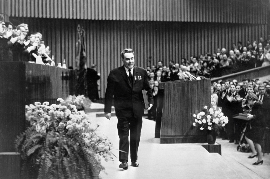 “Secretary general of the CPSU Central Committee Leonid Brezhnev after speaking at the VLKSM Central Committee plenary session”. Secretary general of the CPSU Central Committee Leonid Brezhnev after speaking at the VLKSM Central Committee plenary session dedicated to the 50th anniversary of the Lenin's Komsomol.